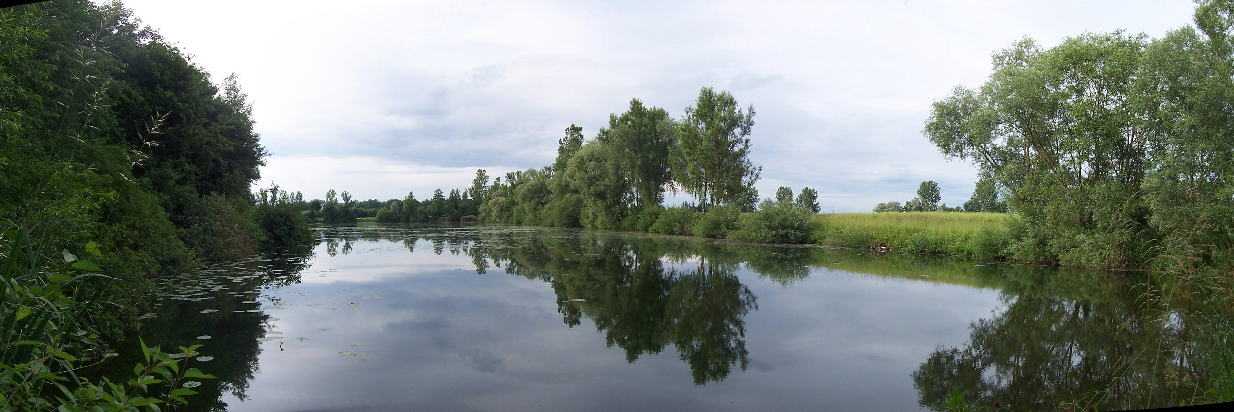 Lake in Dachauer Moos between Hackermoos and Hackenhof in Hebertshausen municipality in the district of Dachau in Bavaria in Germany.